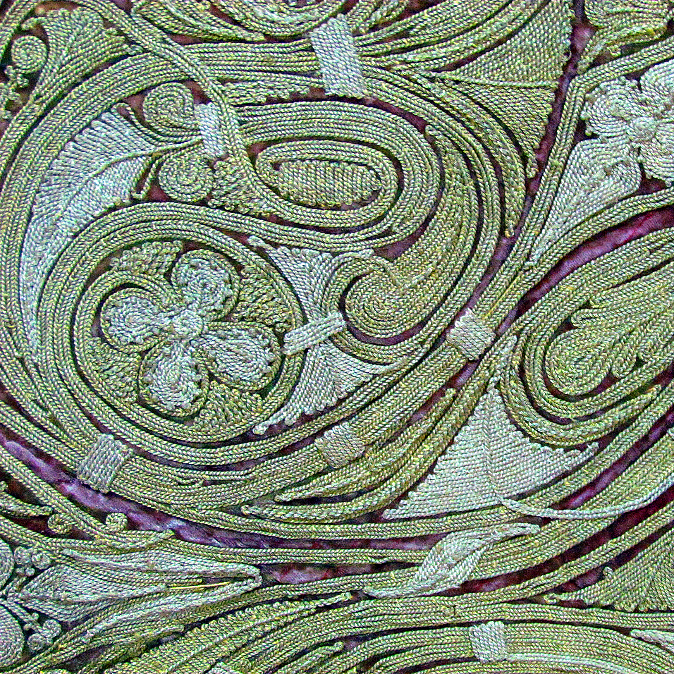 Goldwork from Djuba Serbian national costume from Kosovo and Metohia